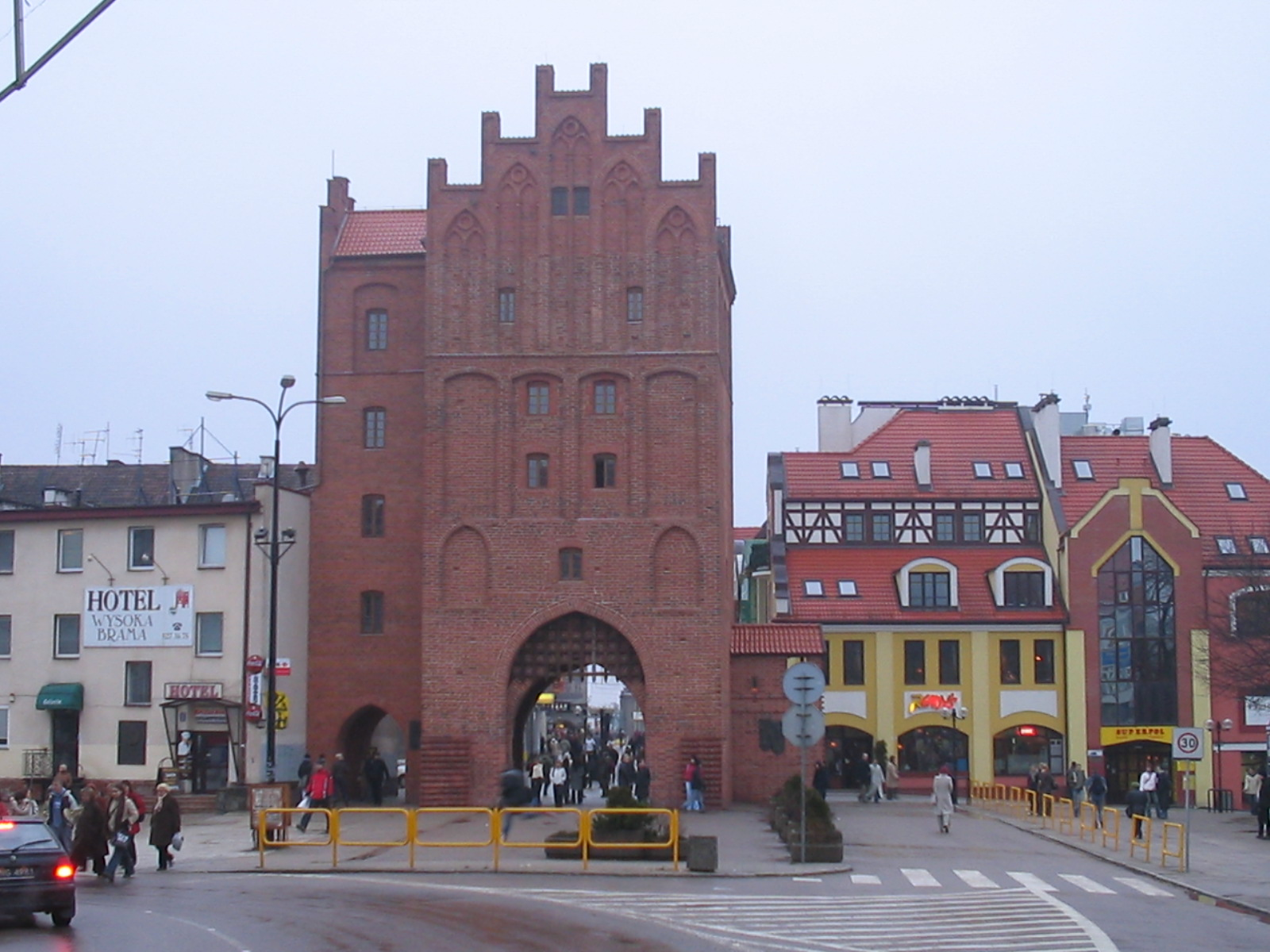 city gate Olsztyn, Poland, december 2004